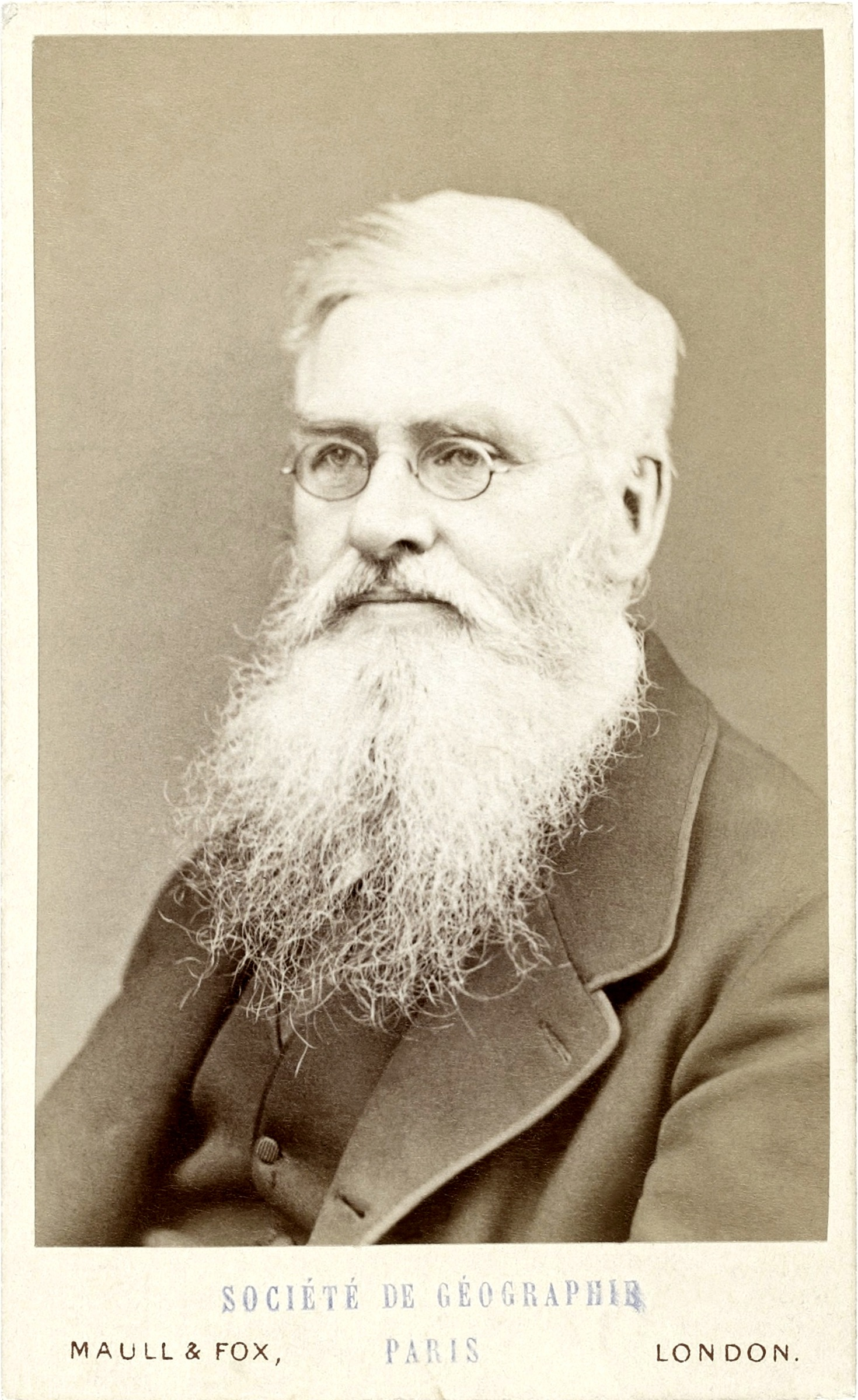 Alfred Russel Wallace (1823 – 1913), British naturalist, explorer, geographer, anthropologist and biologist. Best known for independently conceiving the theory of evolution through natural selection, with Charles Darwin.